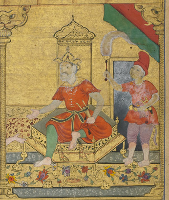 Folio from the Ramayana of Valmiki (The Freer Ramayana), Vol. 2, folio 273; recto: Vibhishana Is Installed as King of Lanka; verso: text 1597-1605 Shyam Sundar , (Indian, Mughal dynasty Opaque watercolor, ink, and gold on paper H: 27.5 W: 15.2 cm Northern India Gift of Charles Lang Freer F1907.271.273